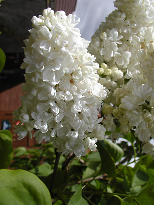 Detail of white lilac Syringa vulgaris head. Taken by Adrian Pingstone in the UK in May 2003 and released to the public domain.